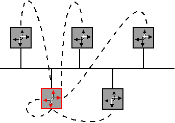 IS-IS Designated System on a LAN